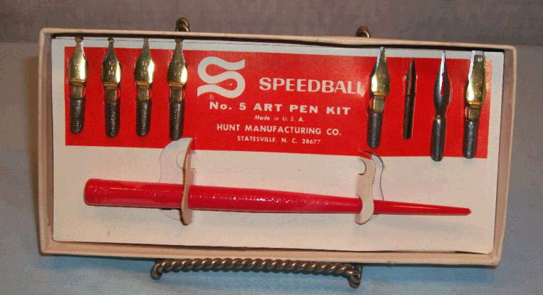 Vintage Speedball art pen kit nº 5, containing various nibs and a penholder